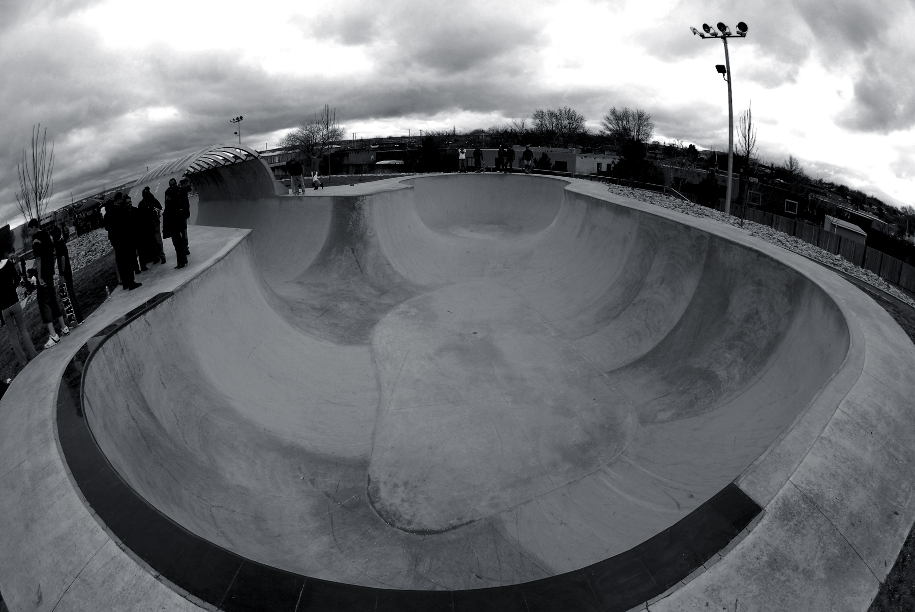 Alamosa Skatepark Environment